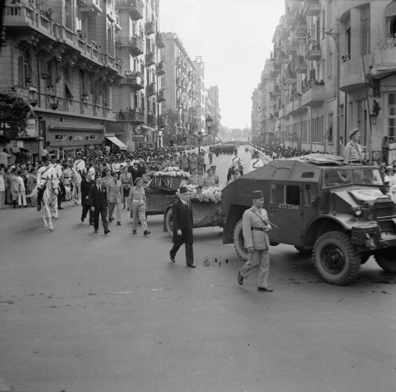 The British Mandate in Palestine 1917-1948 A scene at the funeral of Lord Moyne the British Resident Minister in the Middle East, who was assassinated by a Jewish terrorist organisation. Photograph shows crowds lining the route of the procession in Cairo.